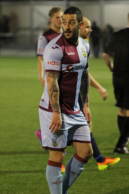 Stuart Fleetwood playing for Weymouth in February 2017